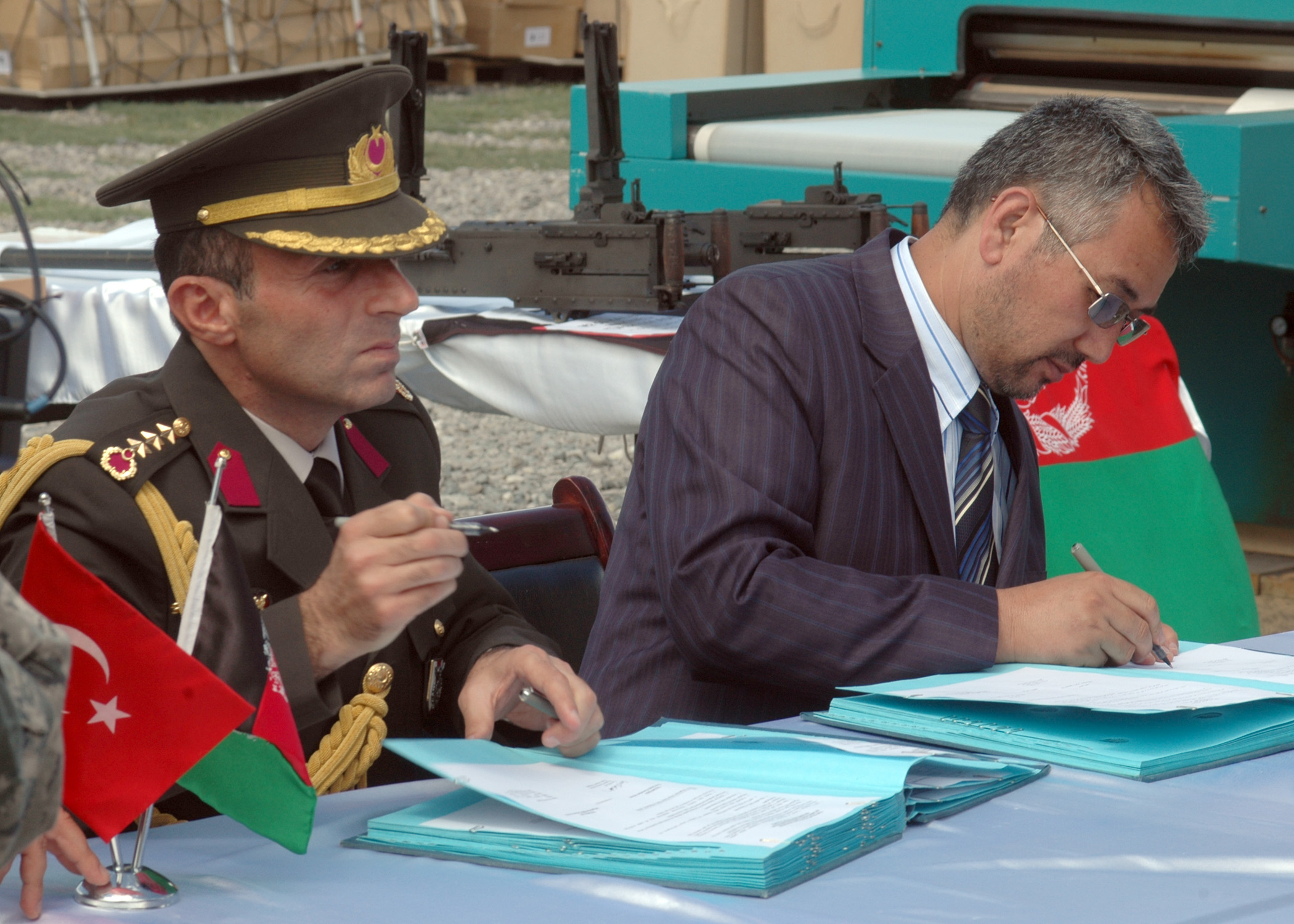 100614-N-3218H-009 (Kabul, Afghanistan) Col. Can Bolat, Staff Colonel, Military Attache of Turkiye and Col. Qussimi, Assistant to Minister Jawhari sign documents to transfer donated supplies to Afghanistan official. Turkey has an outstanding relationship with Afghanistan and contiues to support recovery and sustainment. (U.S. Navy photo by MC2 (SW) Christopher Hall)